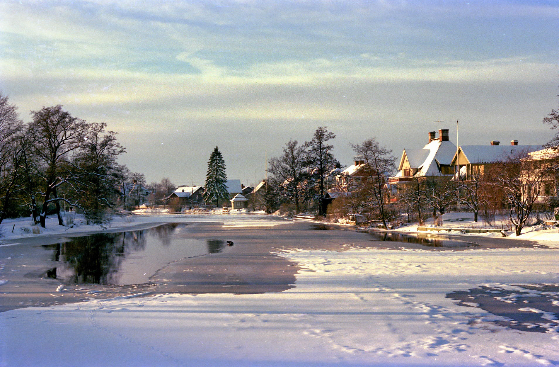 The Rosta area and the river Svartån, Örebro, Sweden